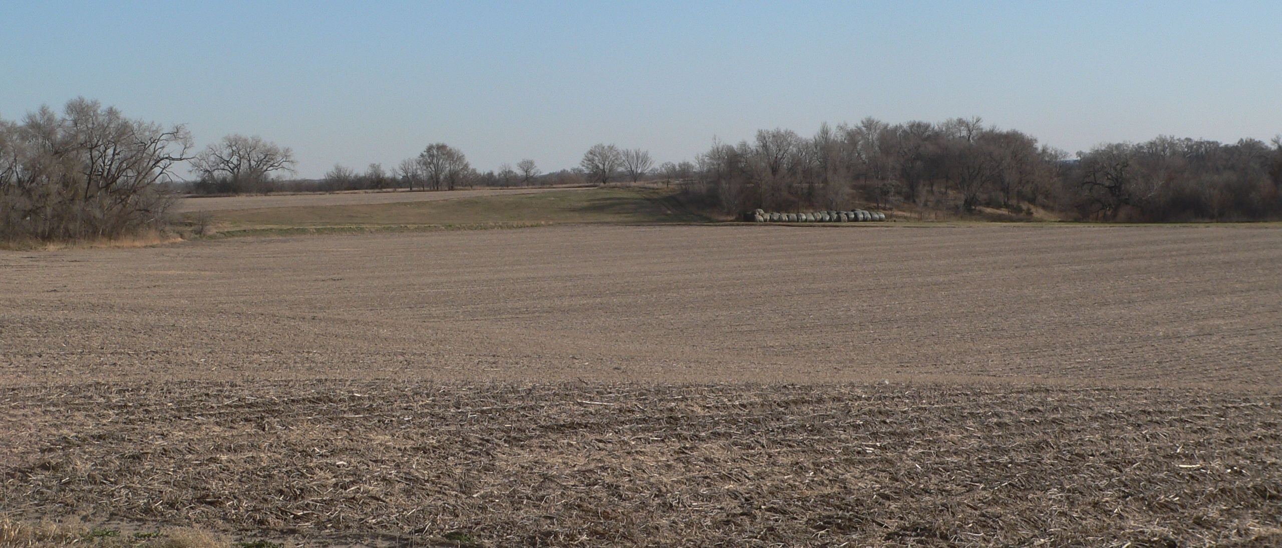 Vicinity of Palmer archaeological site, near Loup River north of Palmer, Nebraska.